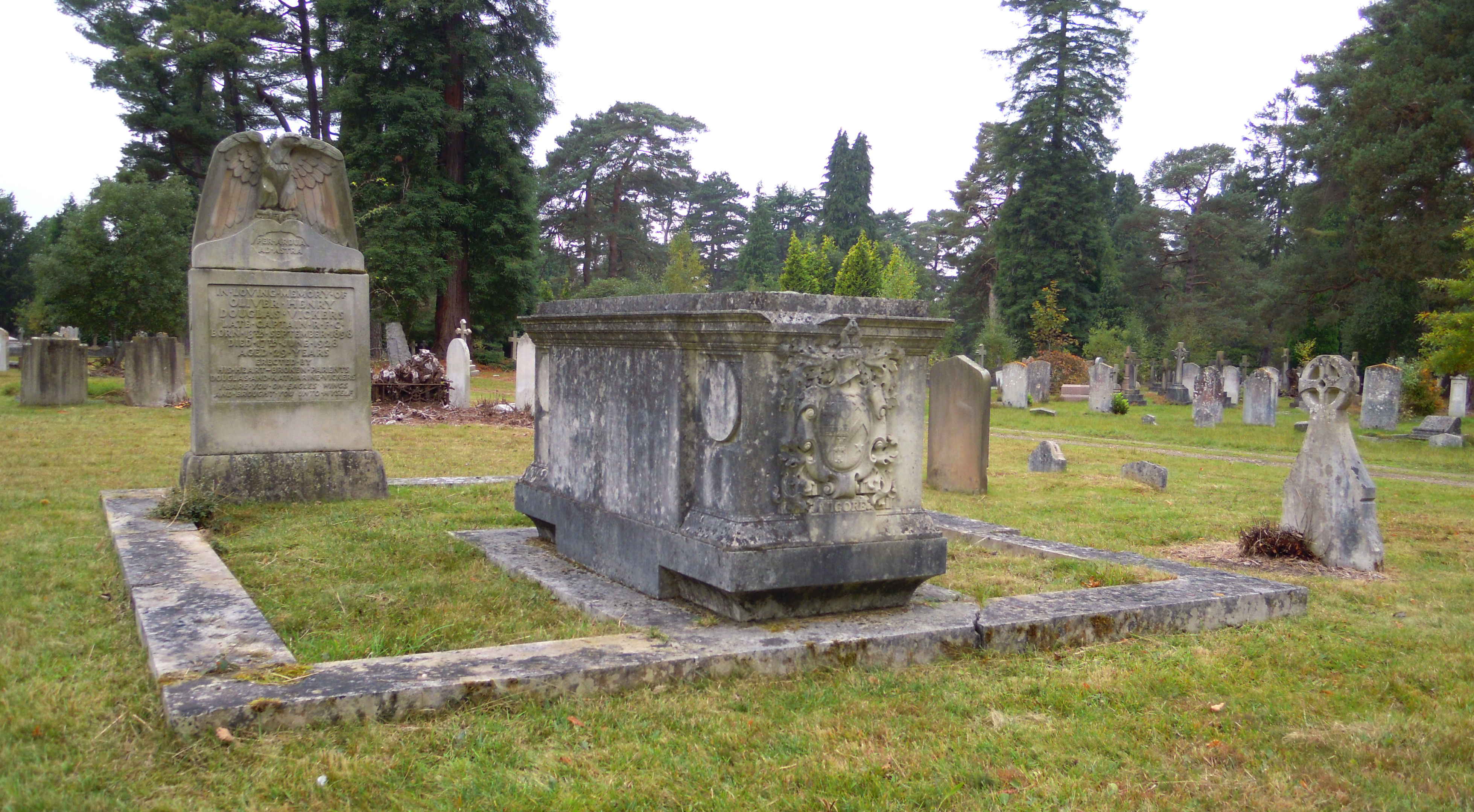 The grave of Douglas Vickers at Brookwood Cemetery